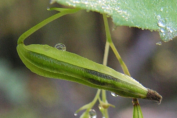 The fruit of Impatiens noli-tangere. Moscow region, Russia.